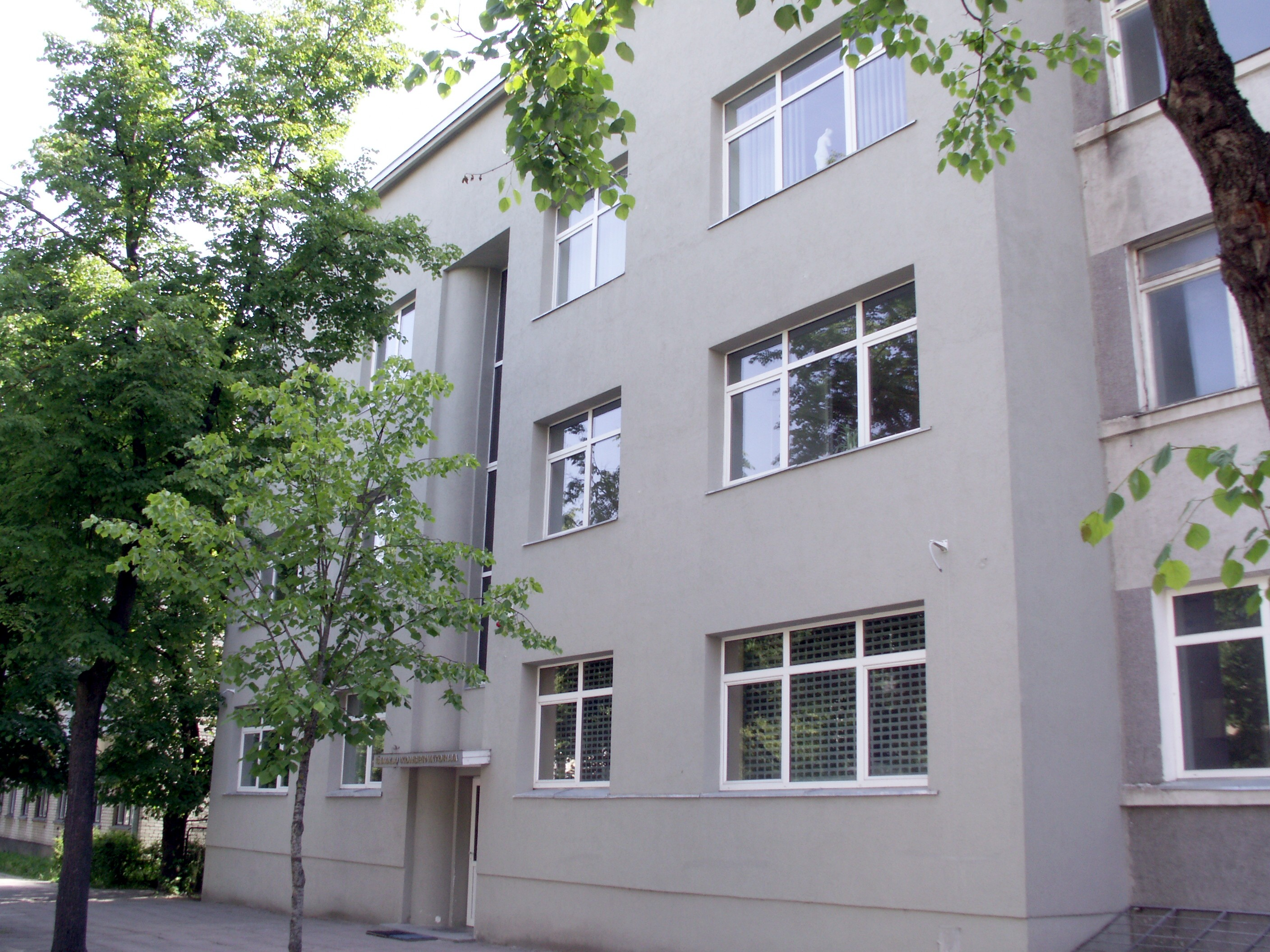 Konservatorium of Šiauliai, Lithuania